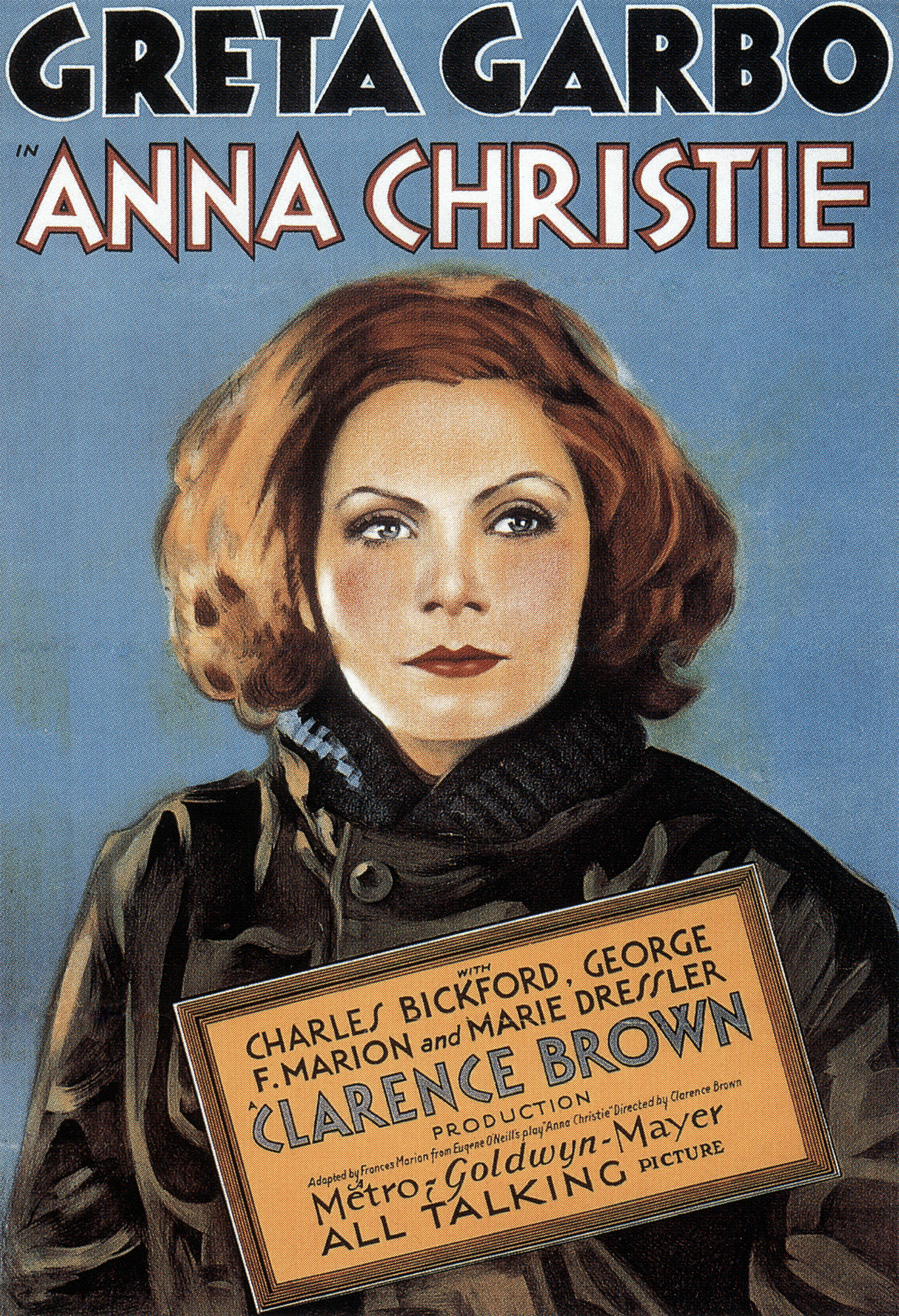 Poster for the 1930 film Anna Christie. Note the poster uploaded is an unwatermarked copy. There are no copyright marks. At bottom left is Country of origin USA and a faint (looks like) *2264O. At bottom right is T953. link to large copy of watermarked poster